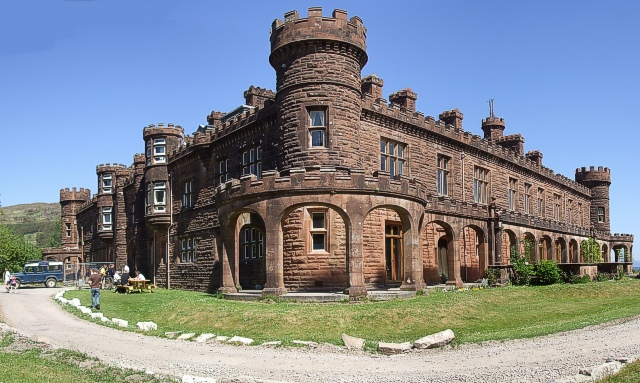 Kinloch Castle from SW This view of Kinloch Castle is from the South-West, looking directly northeastwards. It shows quite well the unusual open-topped loggia which runs along three sides of the castle. The western side - which is the rear of the castle - seen here on the left is the only side not to have this appendage. There is a hostel in this rear section of the castle